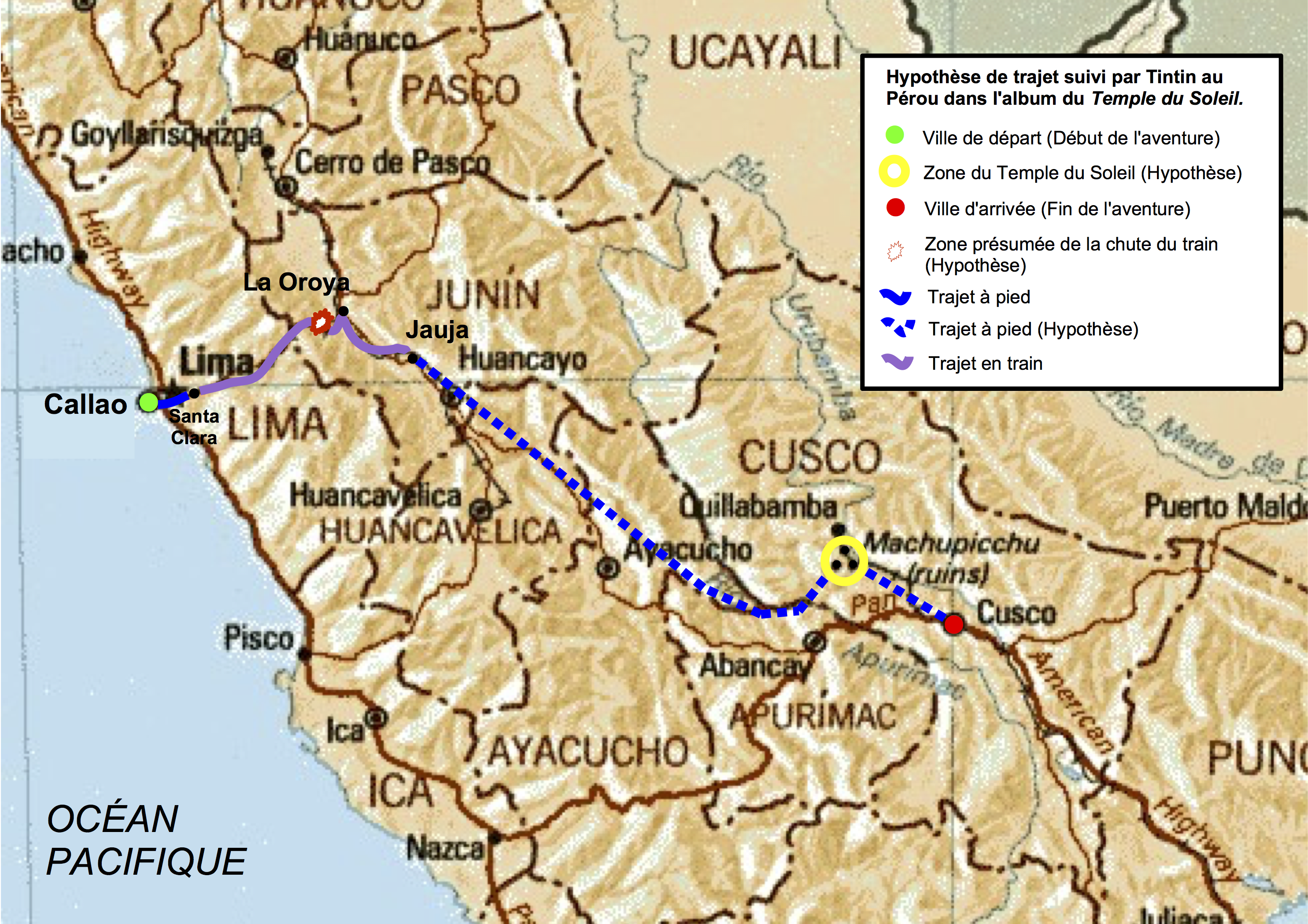 Map of Peru, framed around the Machu Picchu area, on which is drawn the hypothetical path followed by Tintin, Captain Haddock and Zorrino, from Callao to Cusco, through the Temple of the Sun.